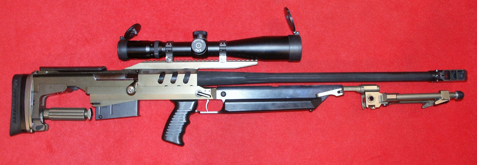 Polish sniper rifle Alex-338, a .338 Lapua Magnum (8.6x70mm) chambered variant of the Polish Army's 7.62x51mm NATO Bor rifle)